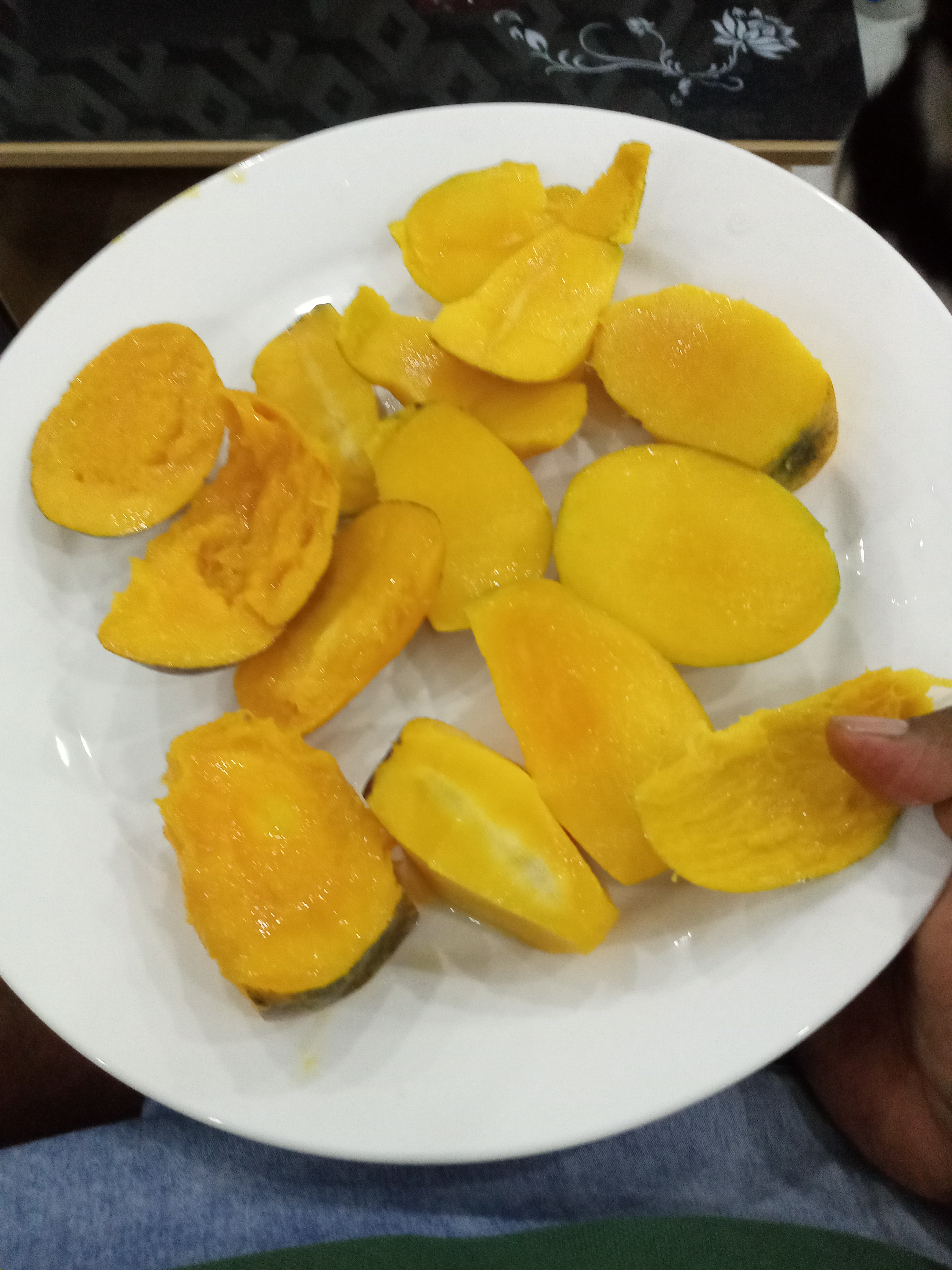 This is an image with the theme "Africa on the Move or Transport" from: Democratic Republic of the Congo